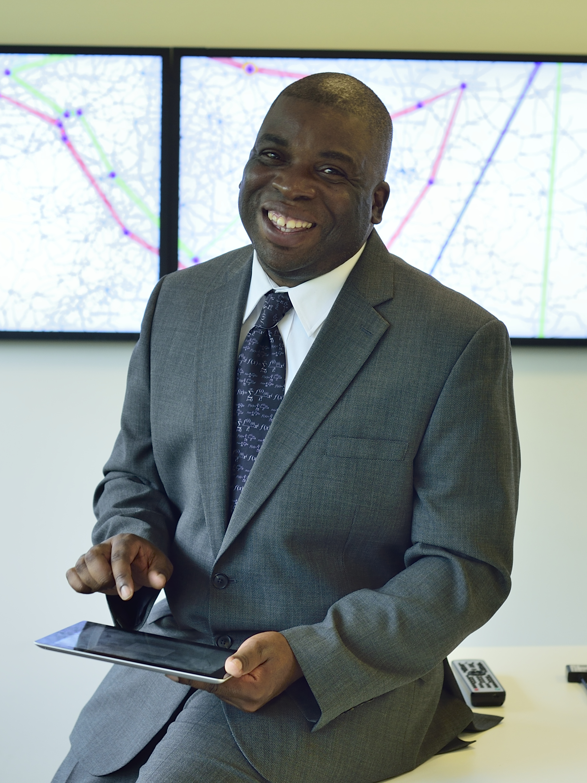 Photograph of Dr Nira Chamberlain taken in Birmingham, 2015.